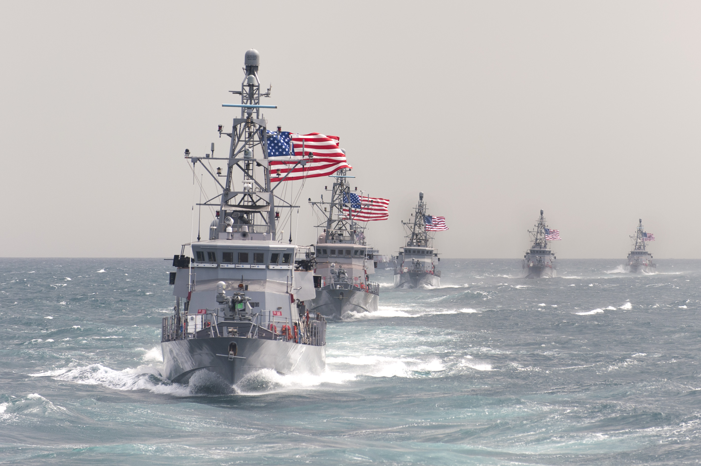 The U.S. Navy Cyclone-class coastal patrol ship USS Hurricane (PC-3) leads other coastal patrol ships assigned to Patrol Coastal Squadron 1 (PCRON 1) in formation during a divisional tactics exercise in the Persian Gulf. PCRON-1 was deployed supporting maritime security operations and theater security cooperation efforts in the U.S. 5th Fleet area of responsibility.